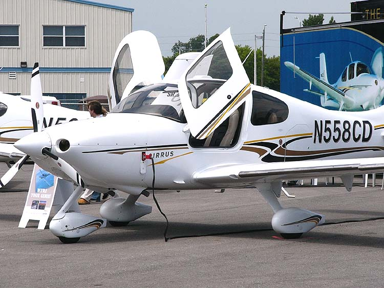 A Cirrus SR22 (N558CD) on display at the Canadian Aviation Expo 2004